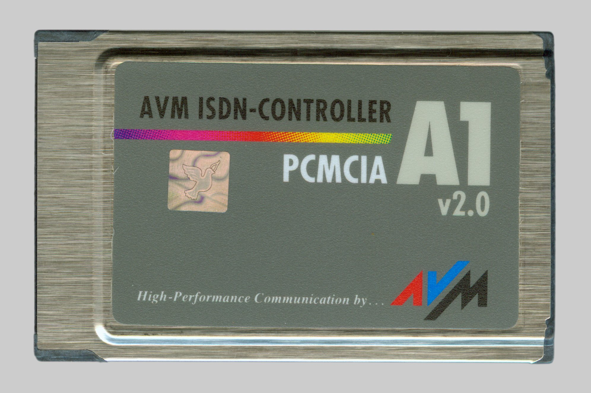 Passive ISDN-Controller PCMCIA card